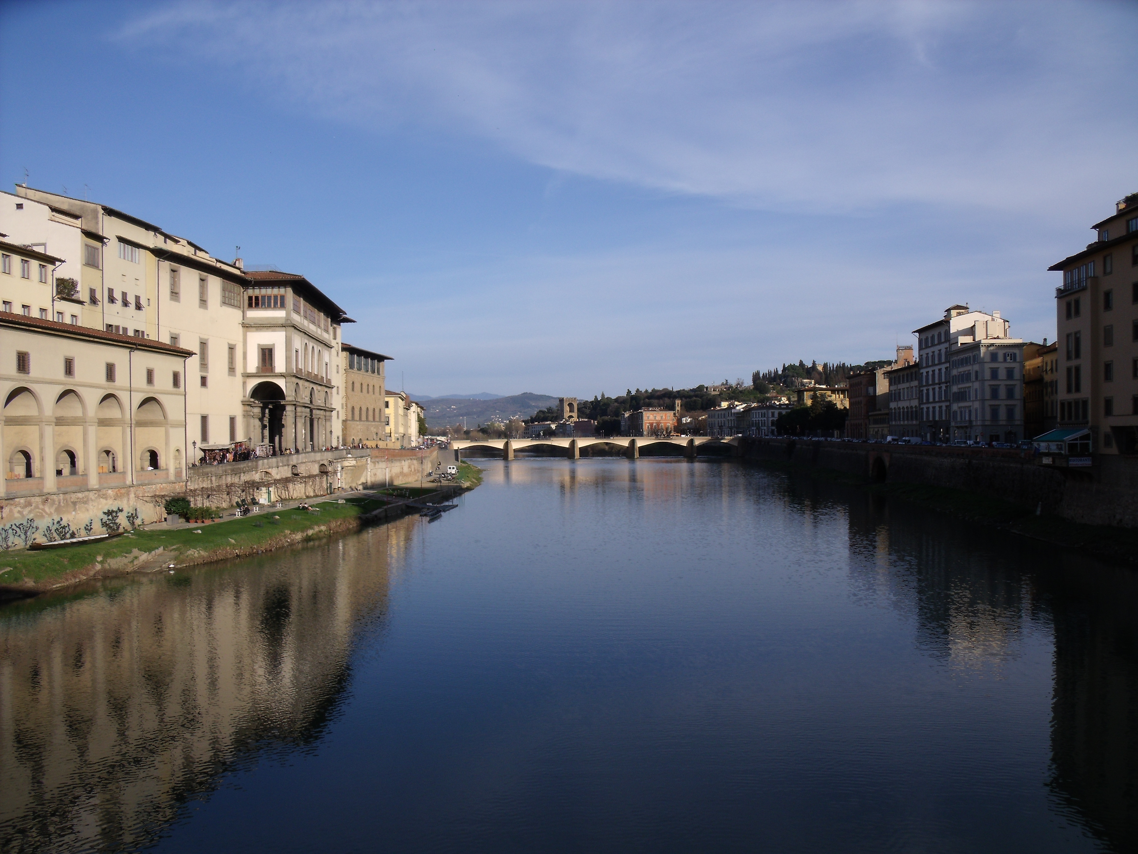 Taken from the Ponte Vecchio in Florence, Italy, of the River Arno...